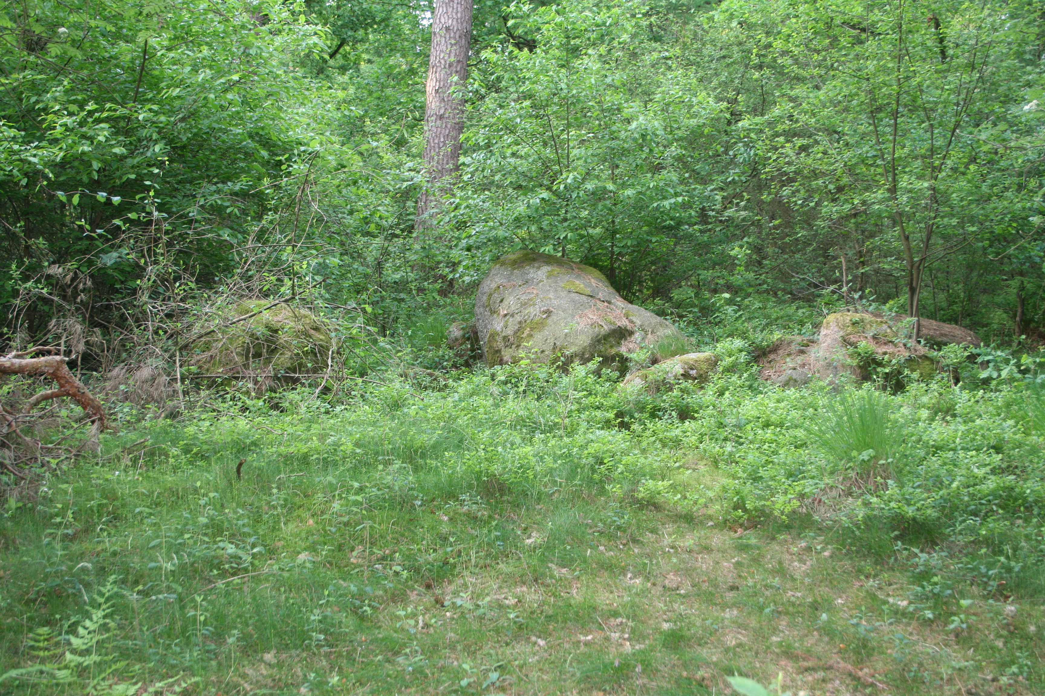 Megalithic tomb Steden 1